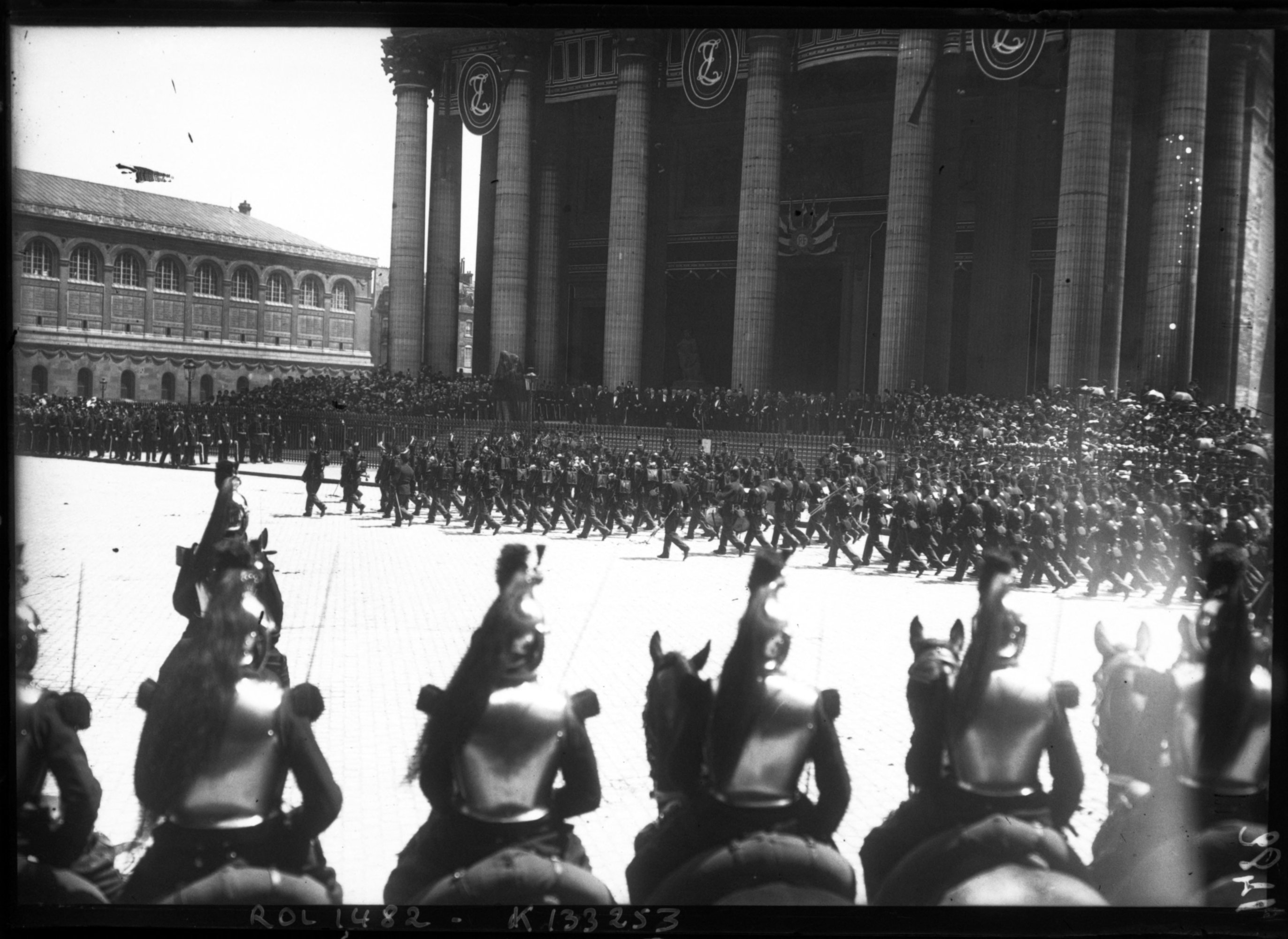 Zola's remains transfered in the Pantheon, Paris, 1908.